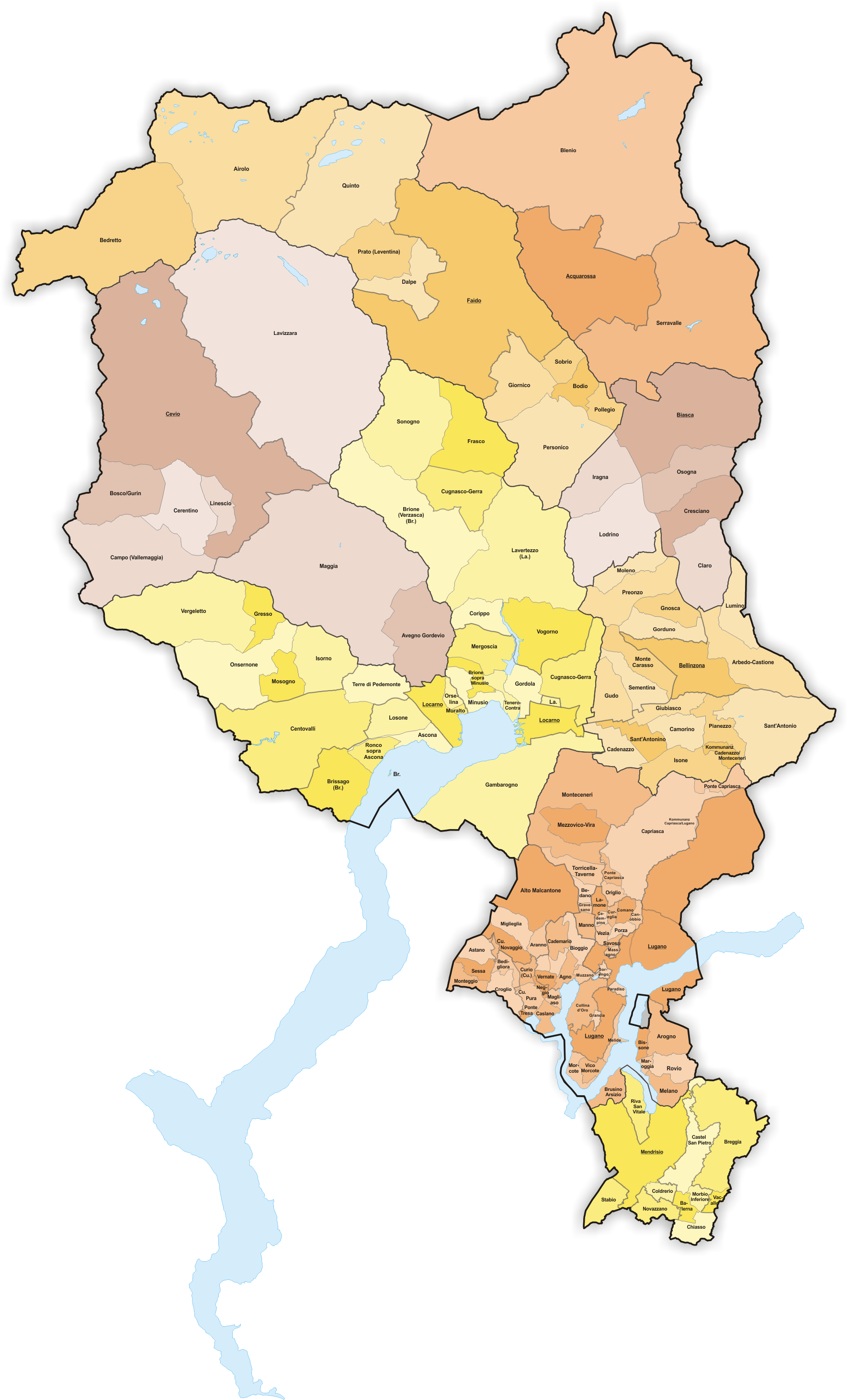 Municipalities in Canton Tessin